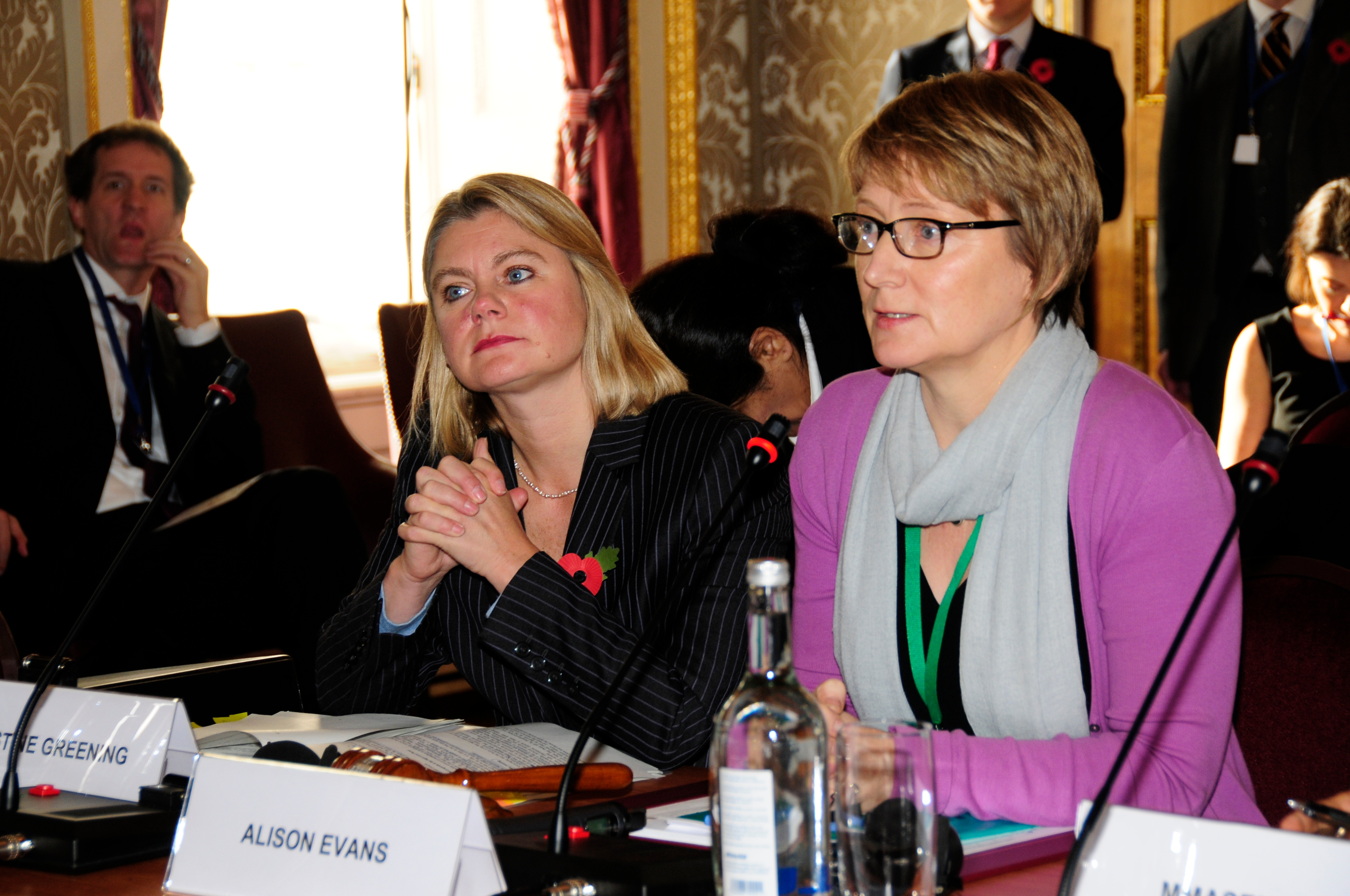 Alison Evans, Director Overseas Development Institute, moderator for the UK-led seminar day for High Level Panellists held at Marlborough House on 31 October 2012. London is hosting the discussions this week as the United Nations Secretary General's High Level Panel (HLP) meets to consider what should replace the Millennium Development Goals when they expire in 2015. The HLP held its first meeting at the end of September 2012 in the margins of the United Nations General Assembly in New York, but this is the first of three discussions on poverty eradication to be hosted in the countries of the HLP’s three co-chairs – the British Prime Minister David Cameron, Liberian President Sirleaf and Indonesian President Yudhoyono. Find out more about the post-2015 High Level Panel meetings this week. Follow our storify for the latest updates. Terms of use This image is posted under a Creative Commons - Attribution Licence, in accordance with the Open Government Licence. You are free to embed, download or otherwise re-use it, as long as you credit the source as 'Department for International Development/ Sheena Ariyapala'.